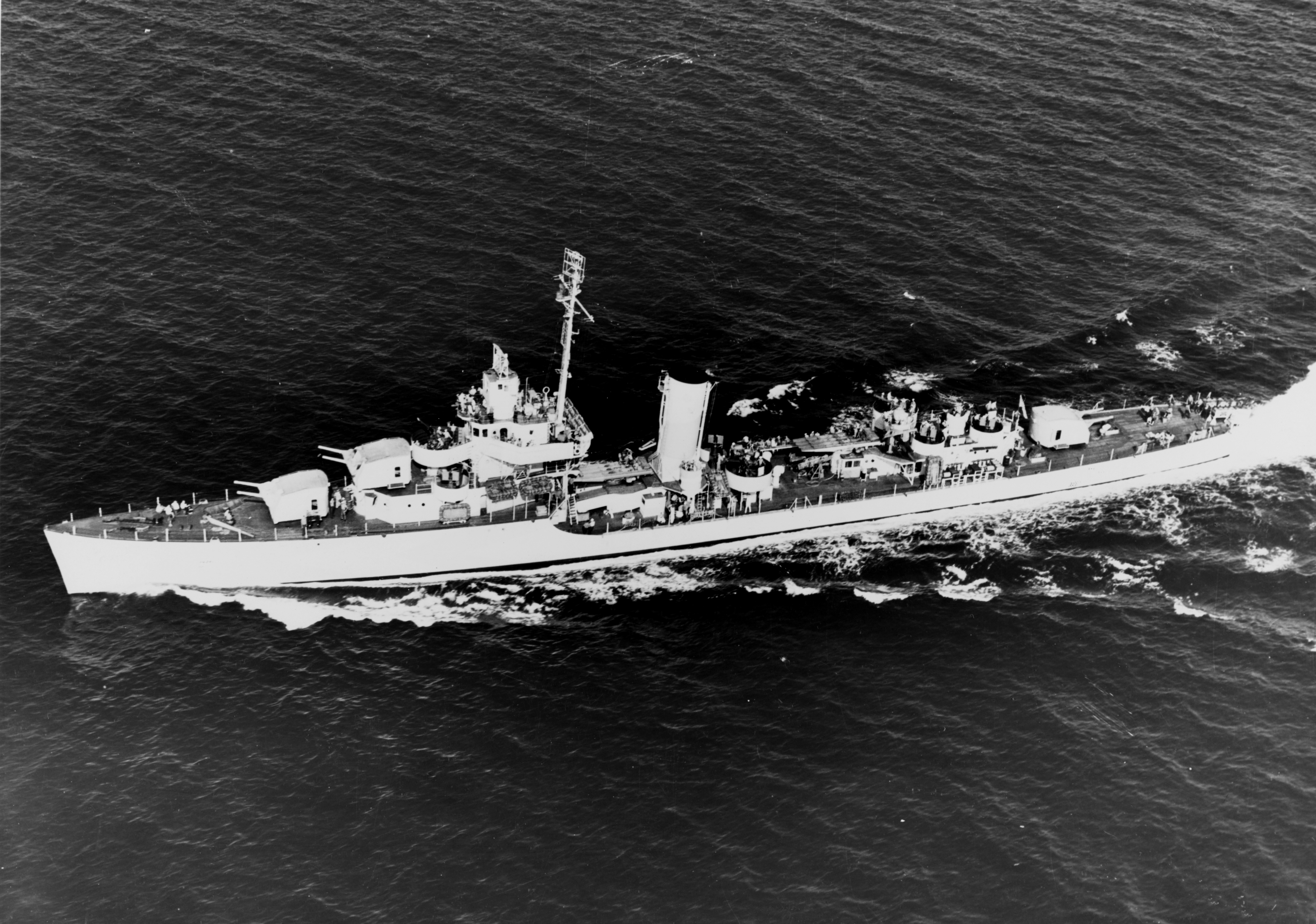 The U.S. Navy Somers-class destroyer USS Sampson (DD-394) underway in the Gulf of Panama, 14 March 1943. Though the pattern is not visible in this photograph, Sampson is painted in the very pale pattern of Measure 16 (Thayer system) camouflage.